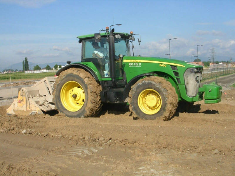 A John Deere 8430 tractor with a "pulvimixer"